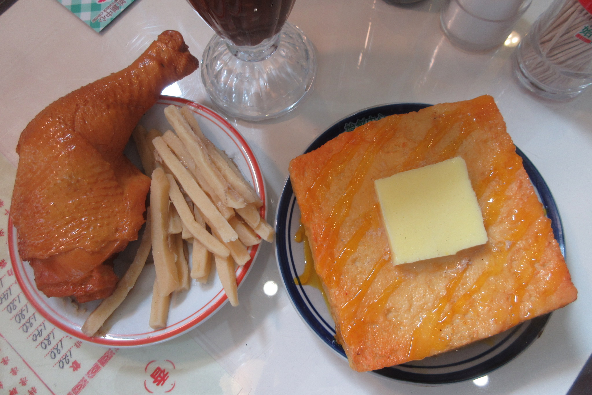 HK 旺角 Mongkok 始創中心 Pioneer Centre exhibition in Oct 2017